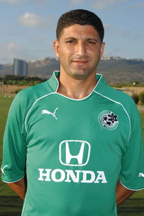 Najwan Grayev נג'ואן גרייב